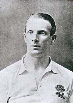 Edgar Roberts "Mobbsy" Mobbs DSO (1882–1917) was an English rugby union footballer who played for and captained Northampton R.F.C. and England. He played as a three quarter